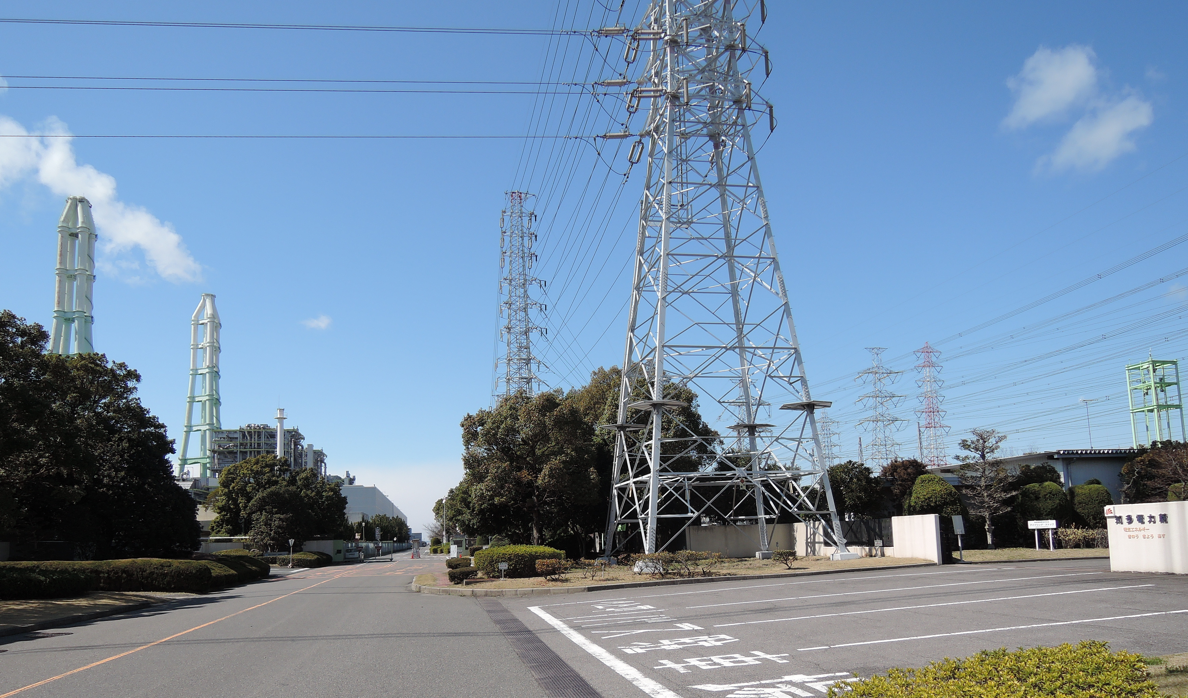 Left: Chita Thermal Power Station, Right: Chita Power Station Museum, Aichi prefecture, Japan